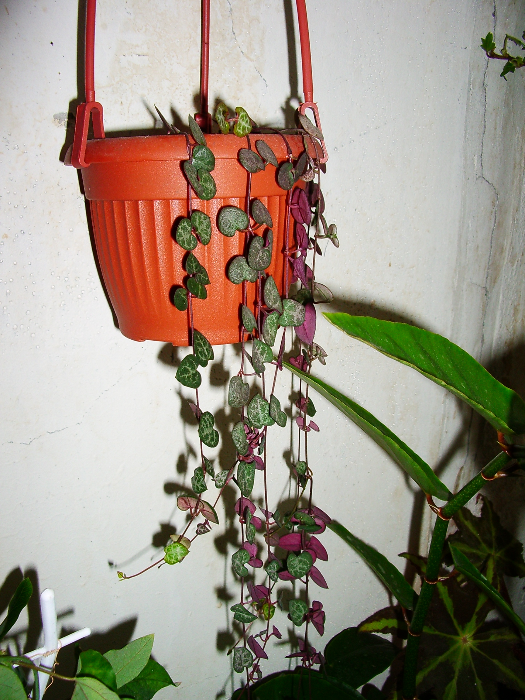 Ceropegia woodii (plant collection of Margarita Shamardina, Berdsk, Russia)